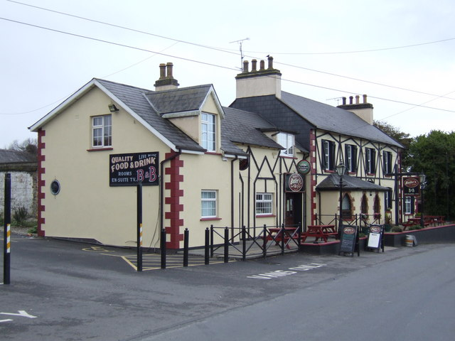 Butler's pub and inn By the road from Tagoat to Lady's Island.